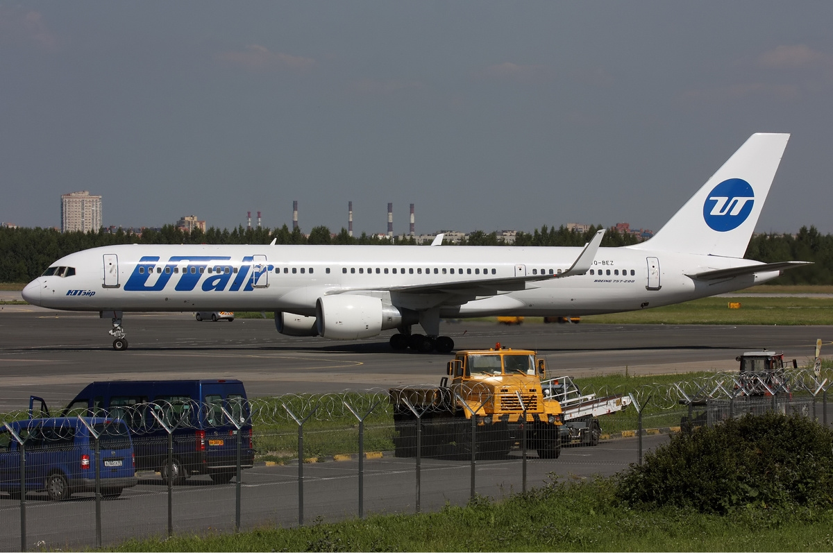 VQ-BEZ, UTair Aviation Boeing 757-200, St Petersburg Airport